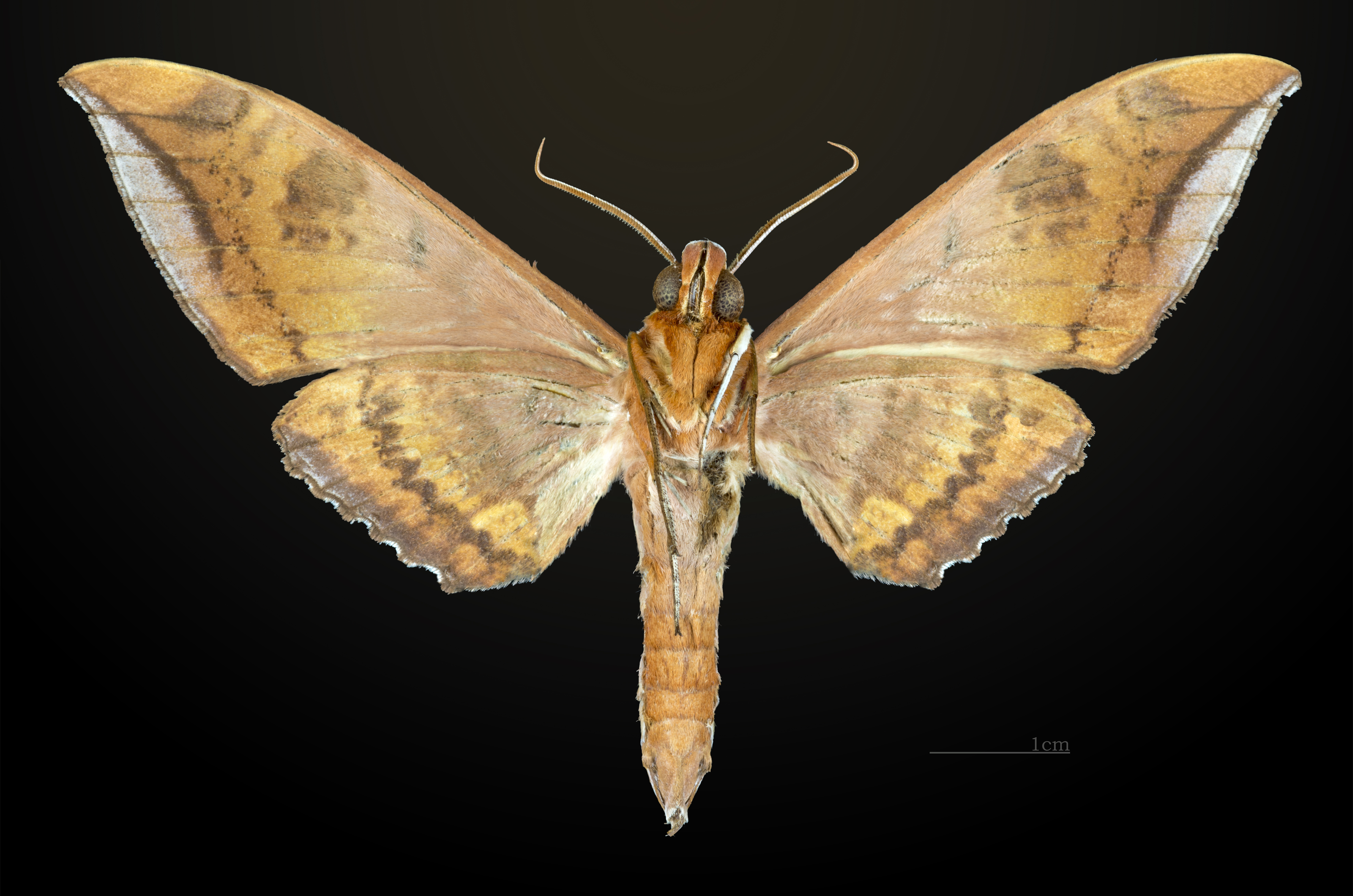 Ambulyx semifervens - △ Ventral side Collection of the Mathematician Laurent Schwartz